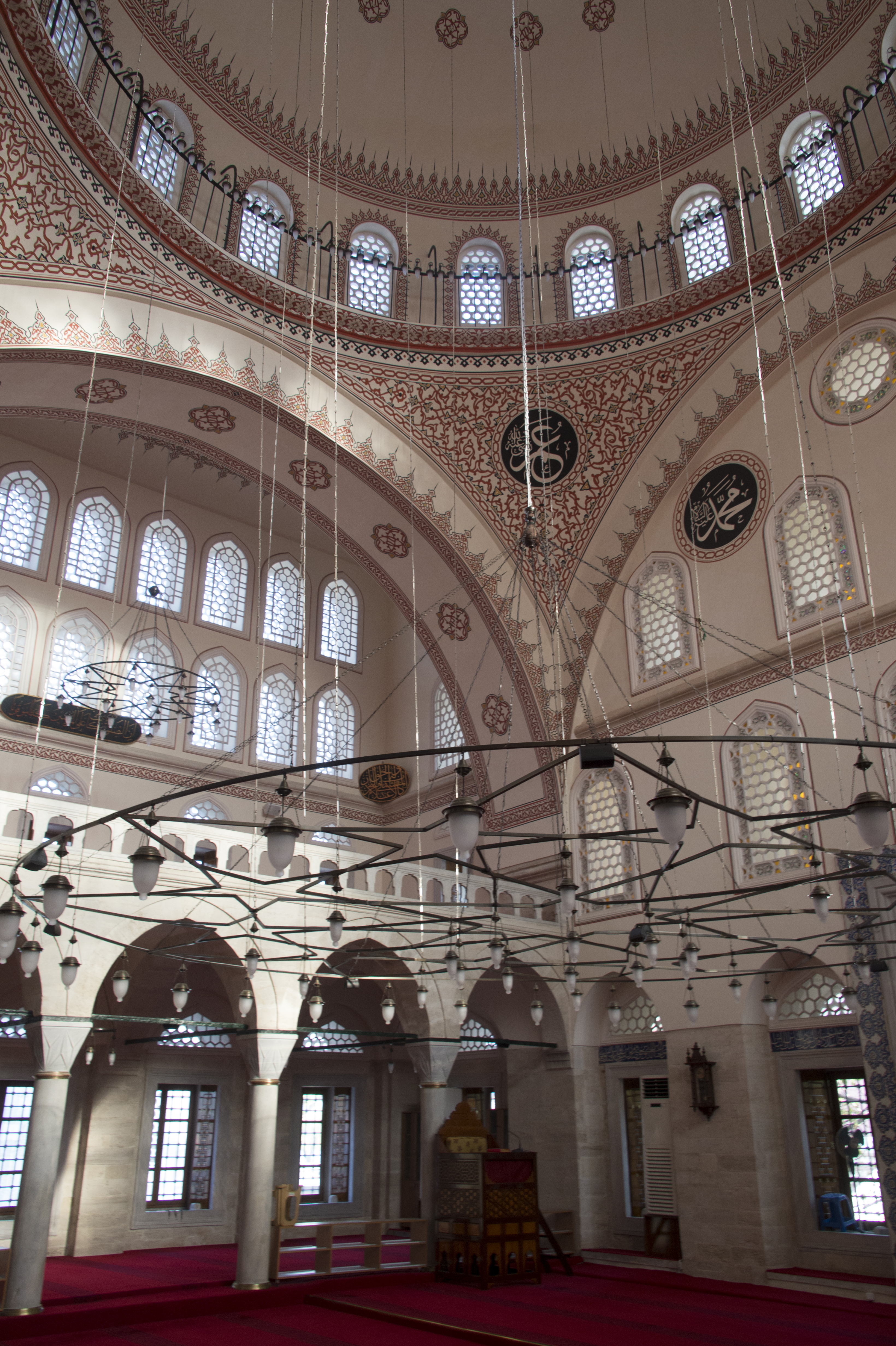 The Strolling through Istanbul guide has it the Zal Mahmut Paşa mosque is the "grandest and most interesting mosque in Eyüp, a mature but unique work of Sinan." Zal "was a rather unsavoury character, when in 1553 Süleyman had his son Mustafa put to death, it was Mahmut (who got his forename Zal from that of a Persian hero famous for his Herculean strength) who overcame the young prince’s resistance and strangled him. Later he married the Princess Şah Sultan, sister of Selim the Sot, as a reward, it is said for having smoothed that prince’s path to the throne by the elimination of his brother. In 1580 Zal and his wife died in a single night. The külliye has an awkard form because of the available grounds. They slope, so under the mosque there is a vaulted substructure, containing rooms for a lower medrese (there are two medreses). In the lower grounds there is a mausoleum for the founder.